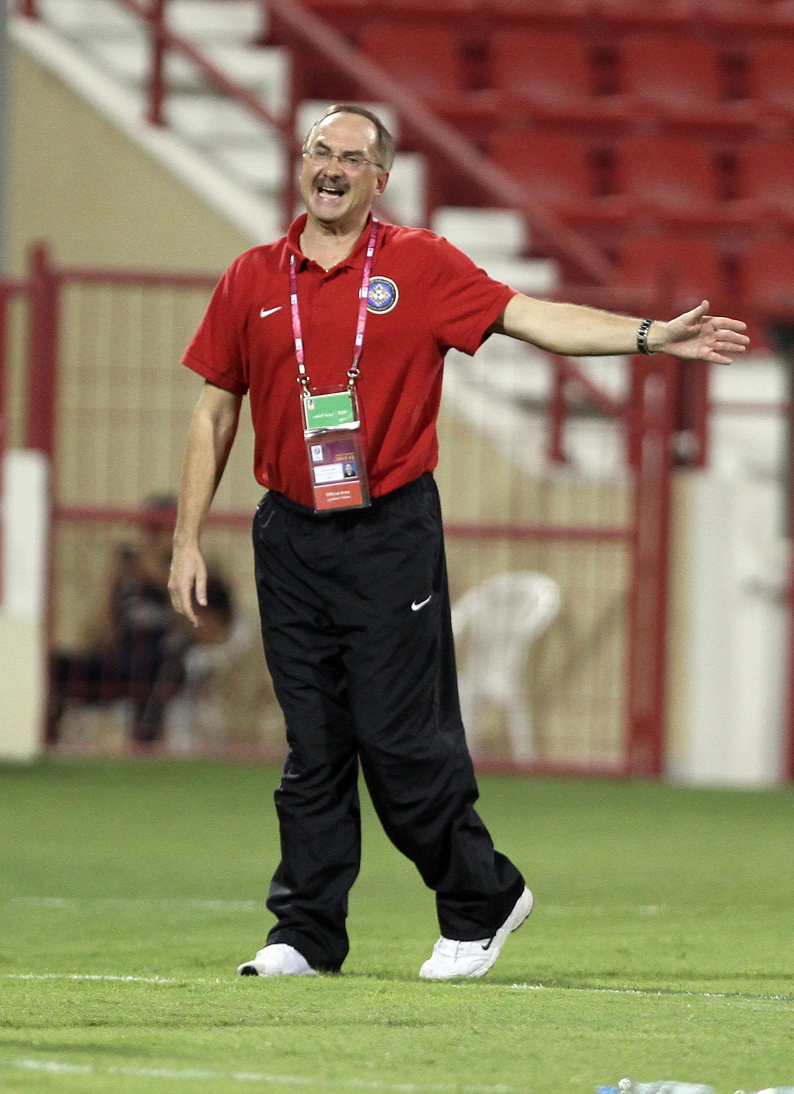 German coach Uli Stielike during a Qatar Stars League match. Picture by Vinod Divakaran